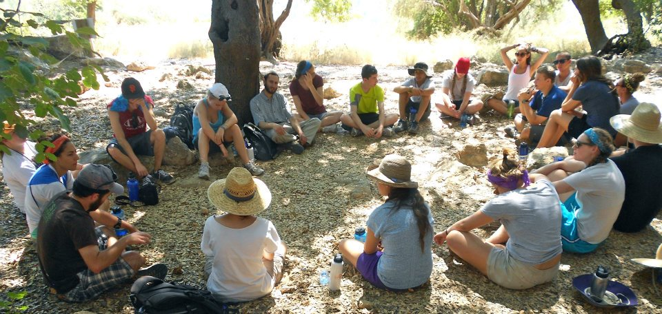 Jewish Eco Seminars